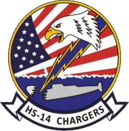 Insignia of the United States Navy Helicopter Anti-Submarine Squadron 14 (HS-14) "Chargers", 1994-2013.